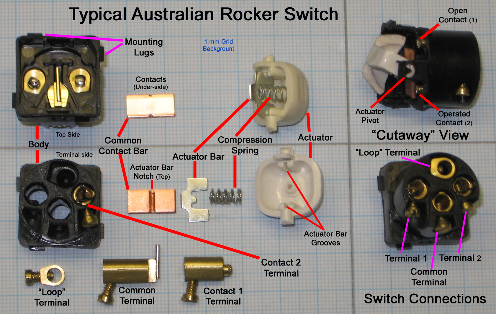 The components of TWO switches are shown, together with a "Cutaway" view and a view of the switch connections. While these switches are Single Pole Double Throw (SPDT) devices, most are used as only Single Pole Single Throw (SPST) devices. In this regard, one may note that "Contact 2" has a small piece of plastic obstructing access to its connecting terminal, since access to this terminal is not required unless it is needed to use the switch as a SPDT switch. It should also be noted that the 'loop terminal" connection is NOT a part of the switching mechanism but is provided by the manufacturer as an insulated "connection point" for other items, such as a "Neutral" connection. This tends to obviate any need to provide auxiliary connection devices, such as "twist on" wire connectors.